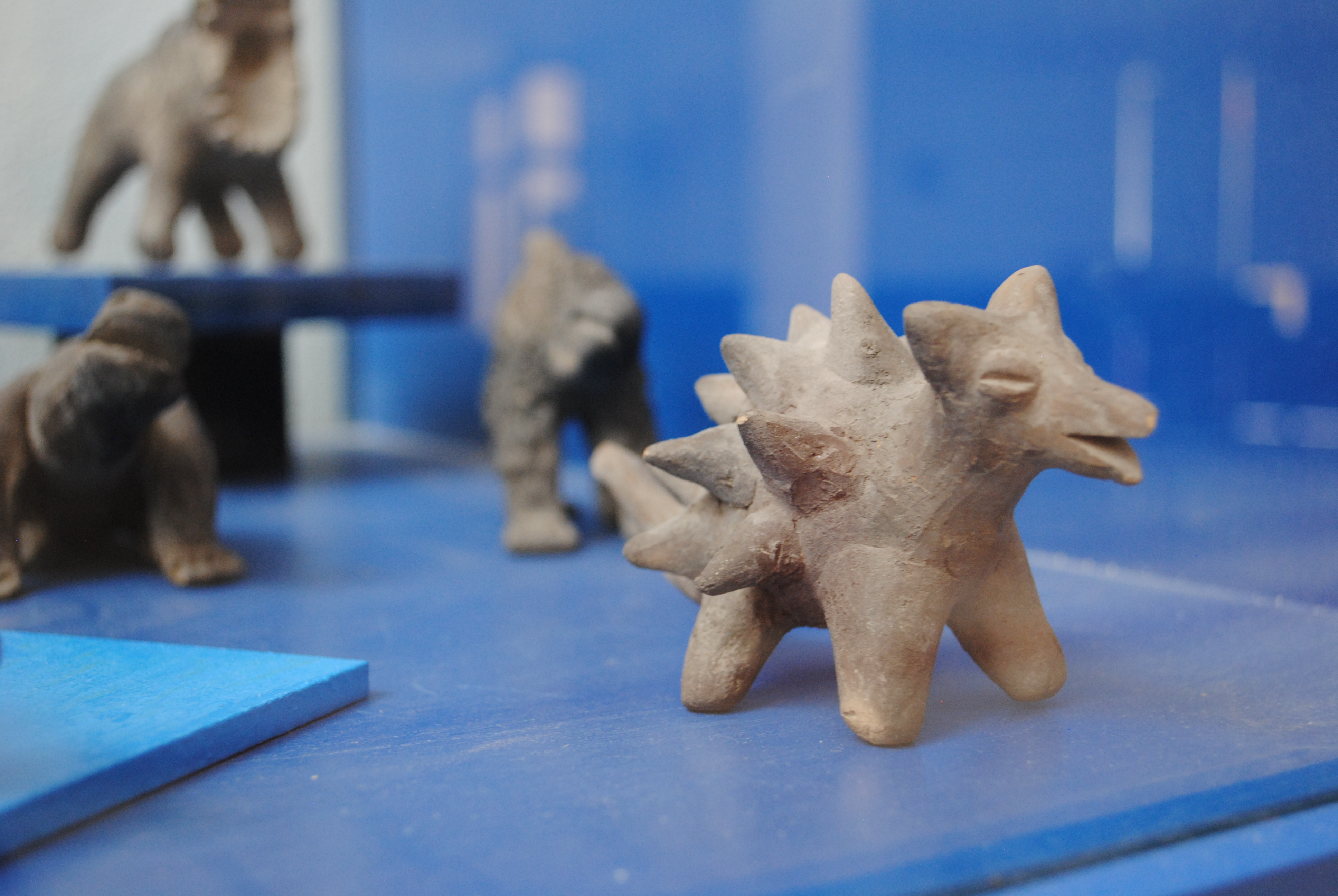 Muzeo Julsrud